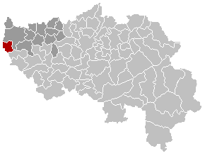 Map, municipality belgium Wasseiges